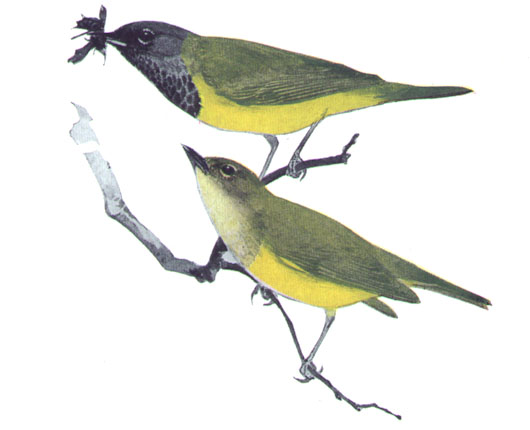 MacGillivray's Warbler, Oporornis tolmiei, offset printing after painting (watercolor or acrylic?). Altered from original on plate.